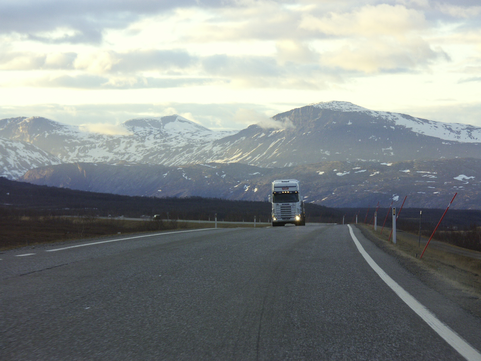 E6 north past the Arctic Circle